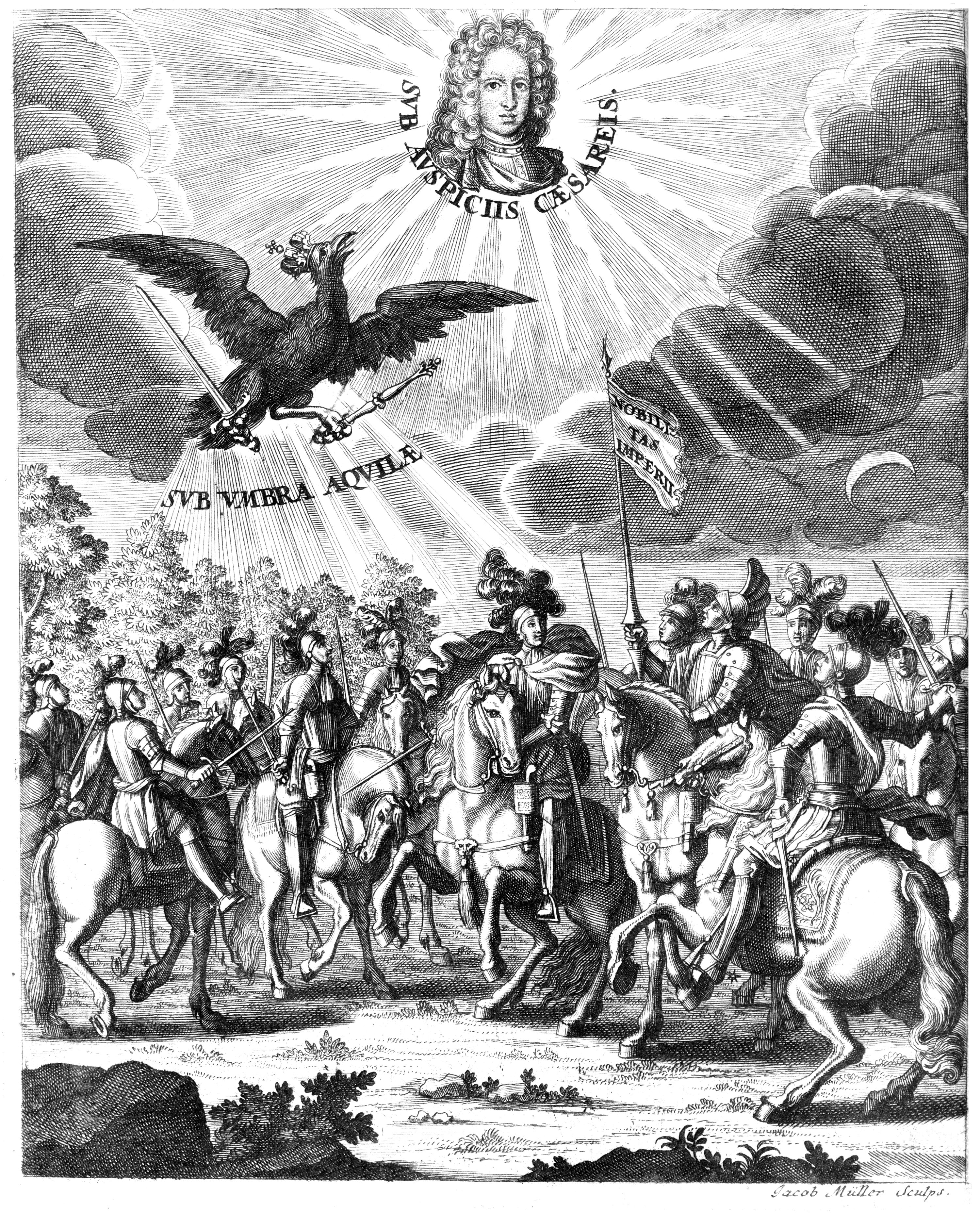 Engraving depicting the Reichsritterschaft (Imperial Knights) from book on topic. The Latin inscriptions read: SVB AVSPICIIS CÆSAREIS.—"Under the command of the Emperor"; SVB VMBRA AQVILÆ—"Under the shadow of the Eagle"; NOBILITAS IMPERII—"Nobility of the Empire".